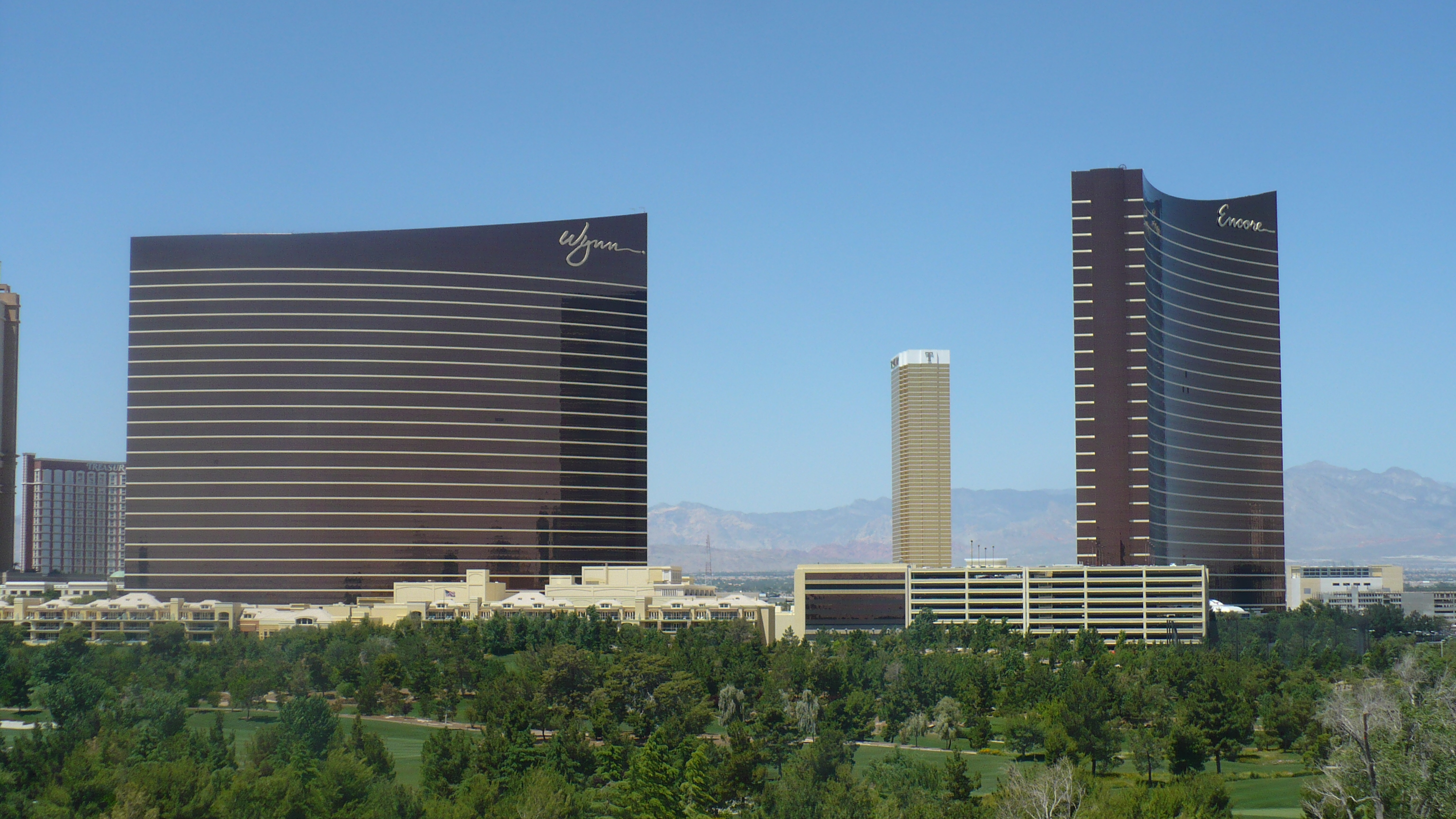 Encore Wynn Towers.